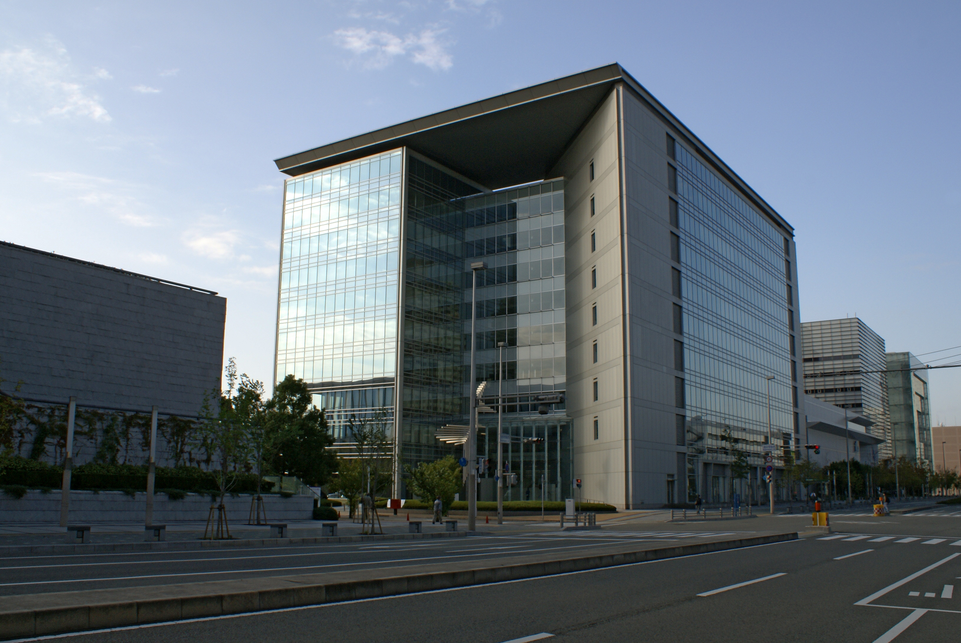 WHO Kobe Centre For Health Development in HAT Kobe, Kobe, Hyogo prefecture, Japan